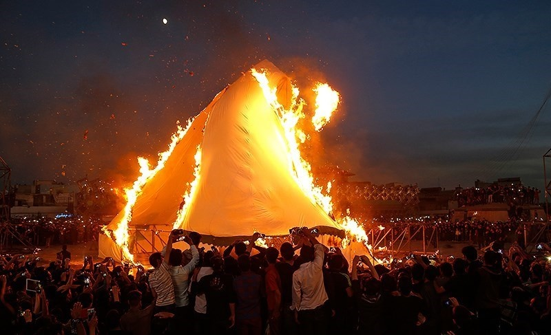 Ashura mourning in Imam Hossein Square, Tehran